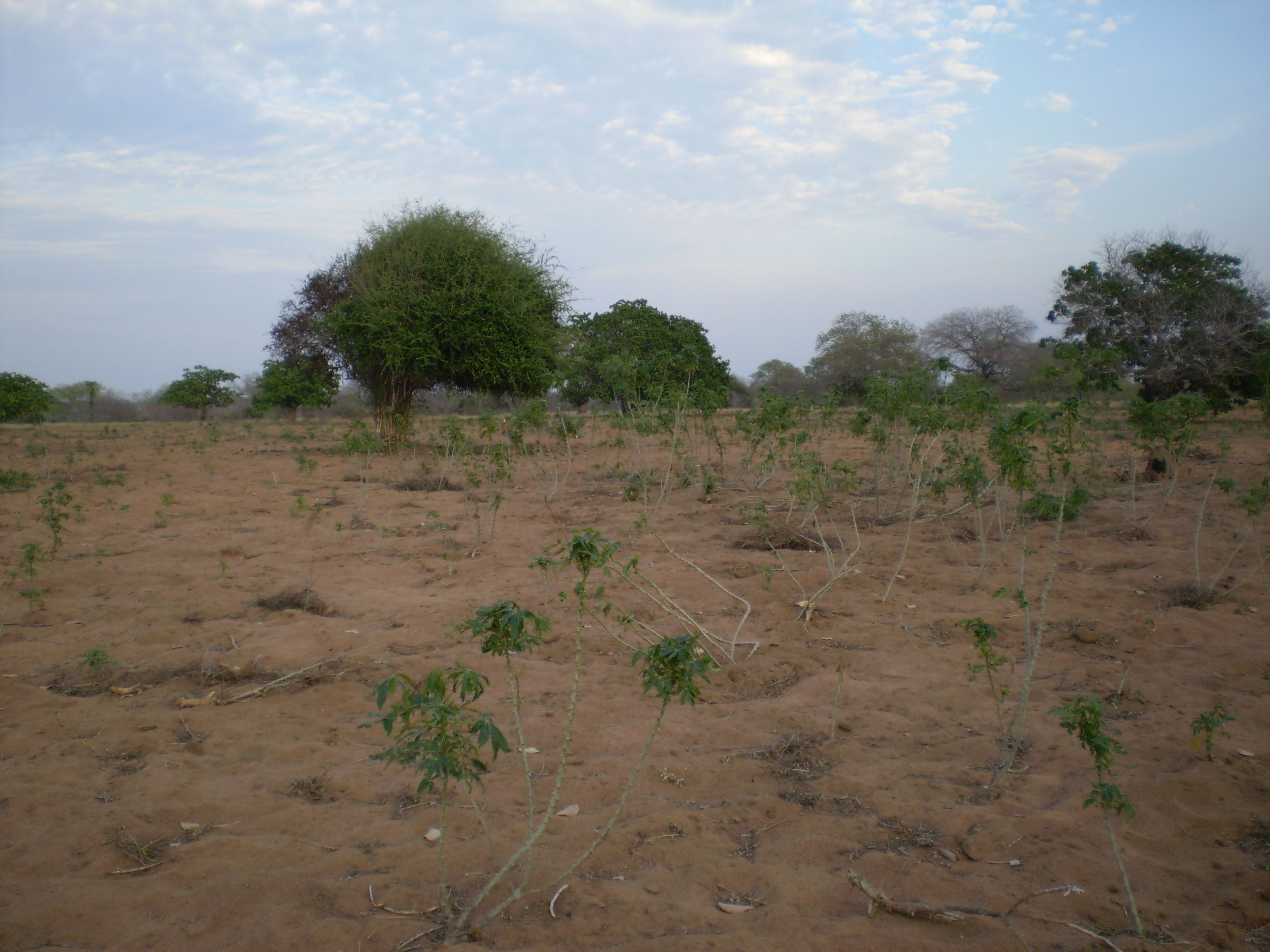 Cassava (Manihot esculenta) field in Mozambique countryside at the end of the dry season